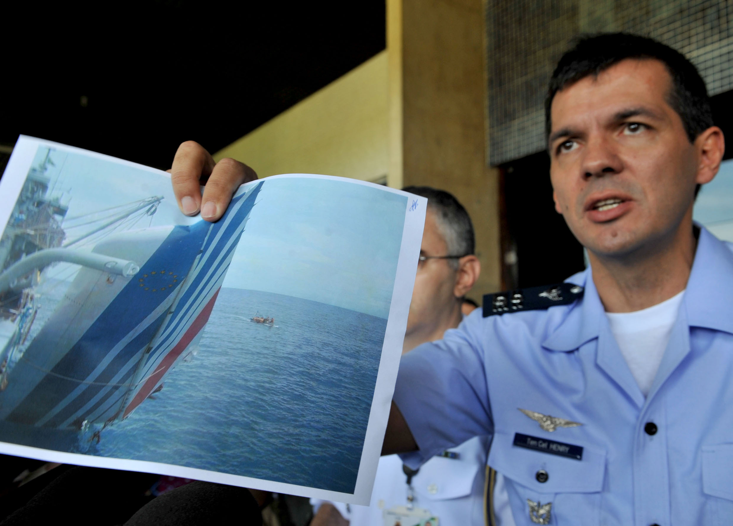 Lieutenant Colonel Henry Munhoz showing a photograph of the recovered piece of the Airbus A330 that crashed into the sea.